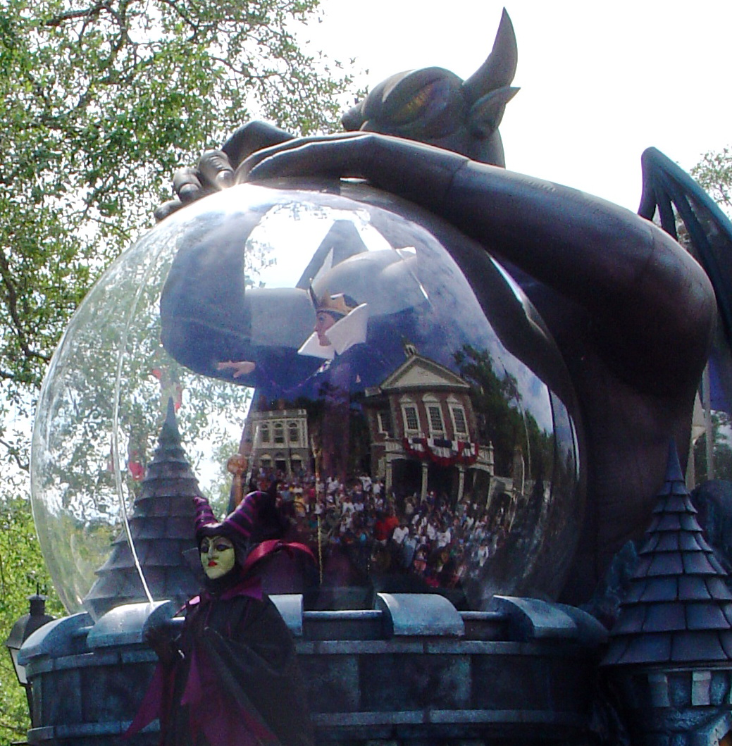 Cropped from